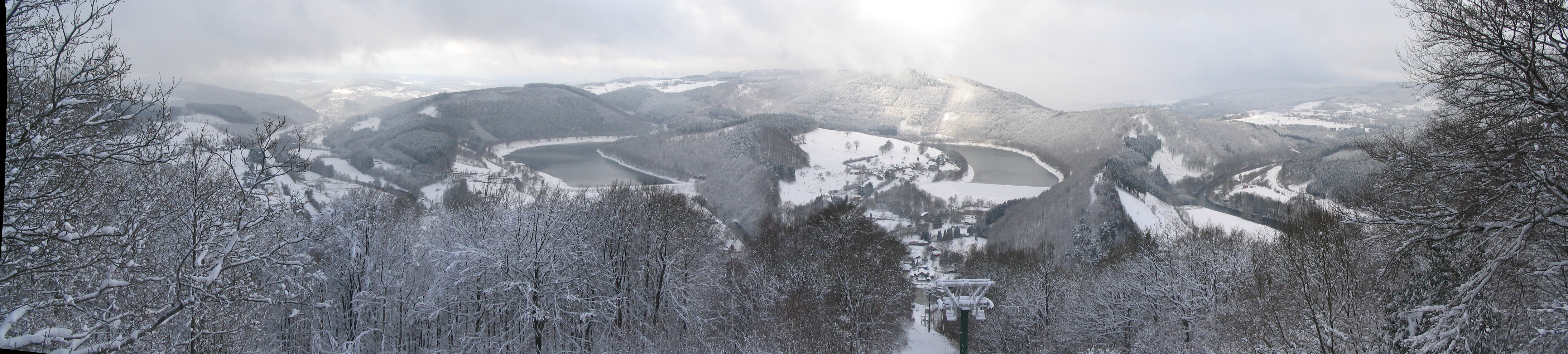 Coo-Trois-Pont (Belgium) lower dam panorama